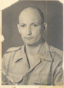 Picture of Colonel Marcel Edme, a member of the French armed forces who took part in fighting in occupied Europe during World War II, French Indochina, Algeria, and later served as a senior adviser to developing military forces in western Africa. Killed in a helicopter crash in late 1979.